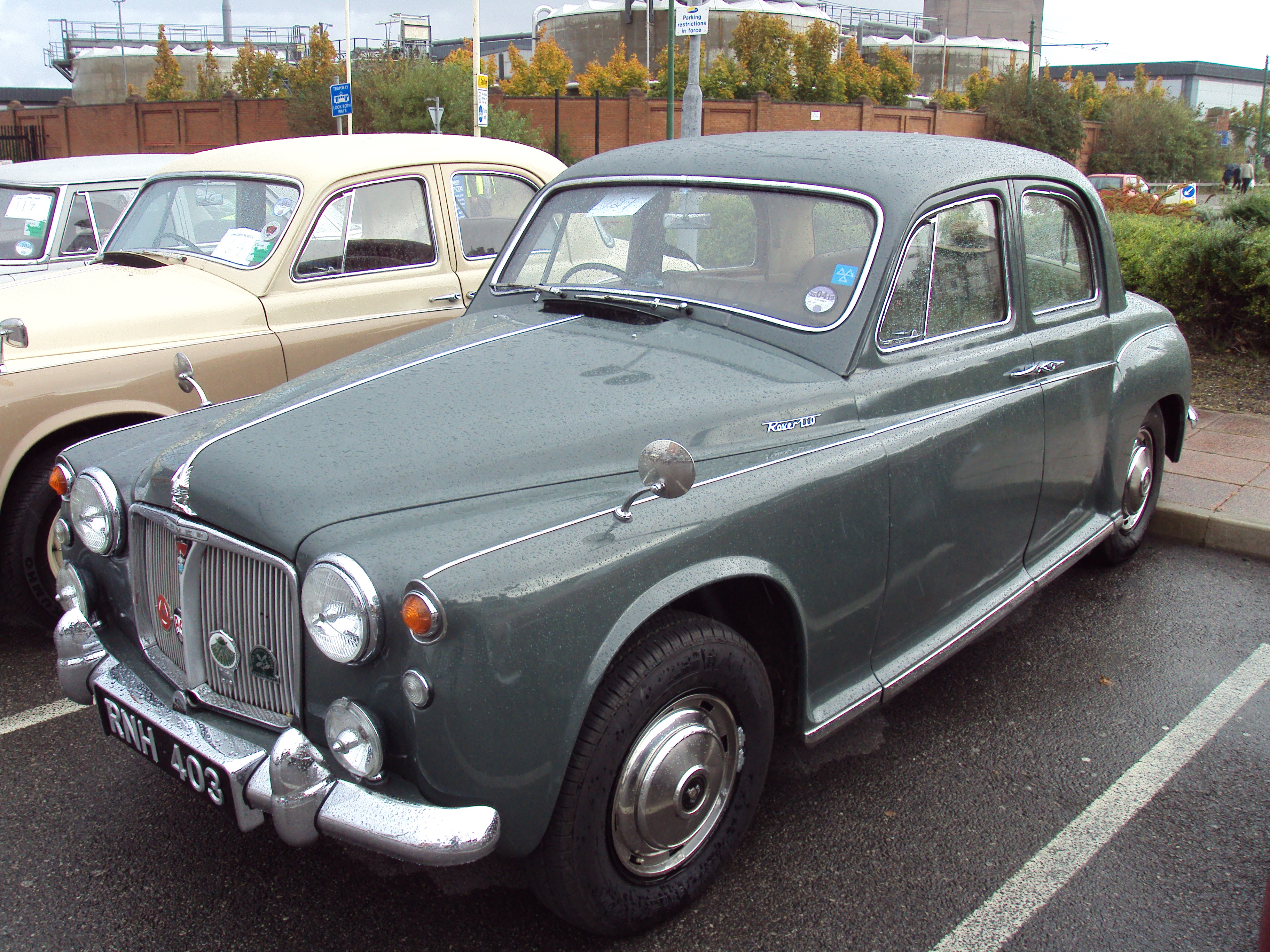 1963 Rover 110 reg 1 Mar 1963, 2625 cc Vintage car at the Wirral Bus & Tram Show, Birkenhead, Merseyside, England.